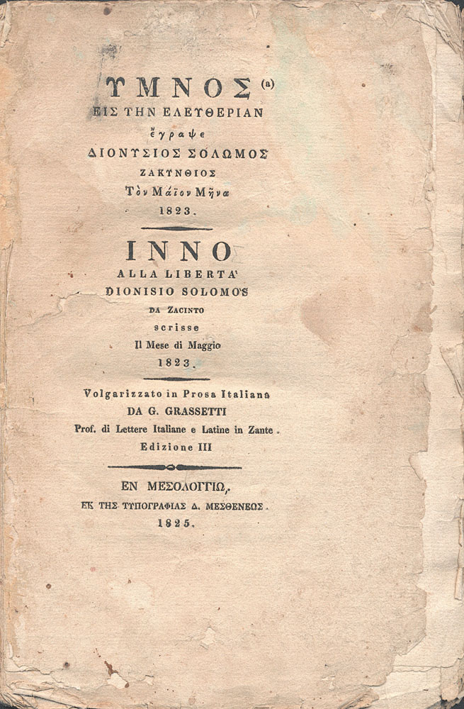 Cover of Dionysios Solomos' Hymn to Liberty (Ὕμνος εἰς τὴν Ἐλευθερίαν), published in Missolonghi (Mεσολόγγι) in 1825. First Greek edition from the press of Dimitrios Mestheneus («Ἐκ τῆς Τυπογραφίας Δ[ημητρίου] Μεσθενέως»).